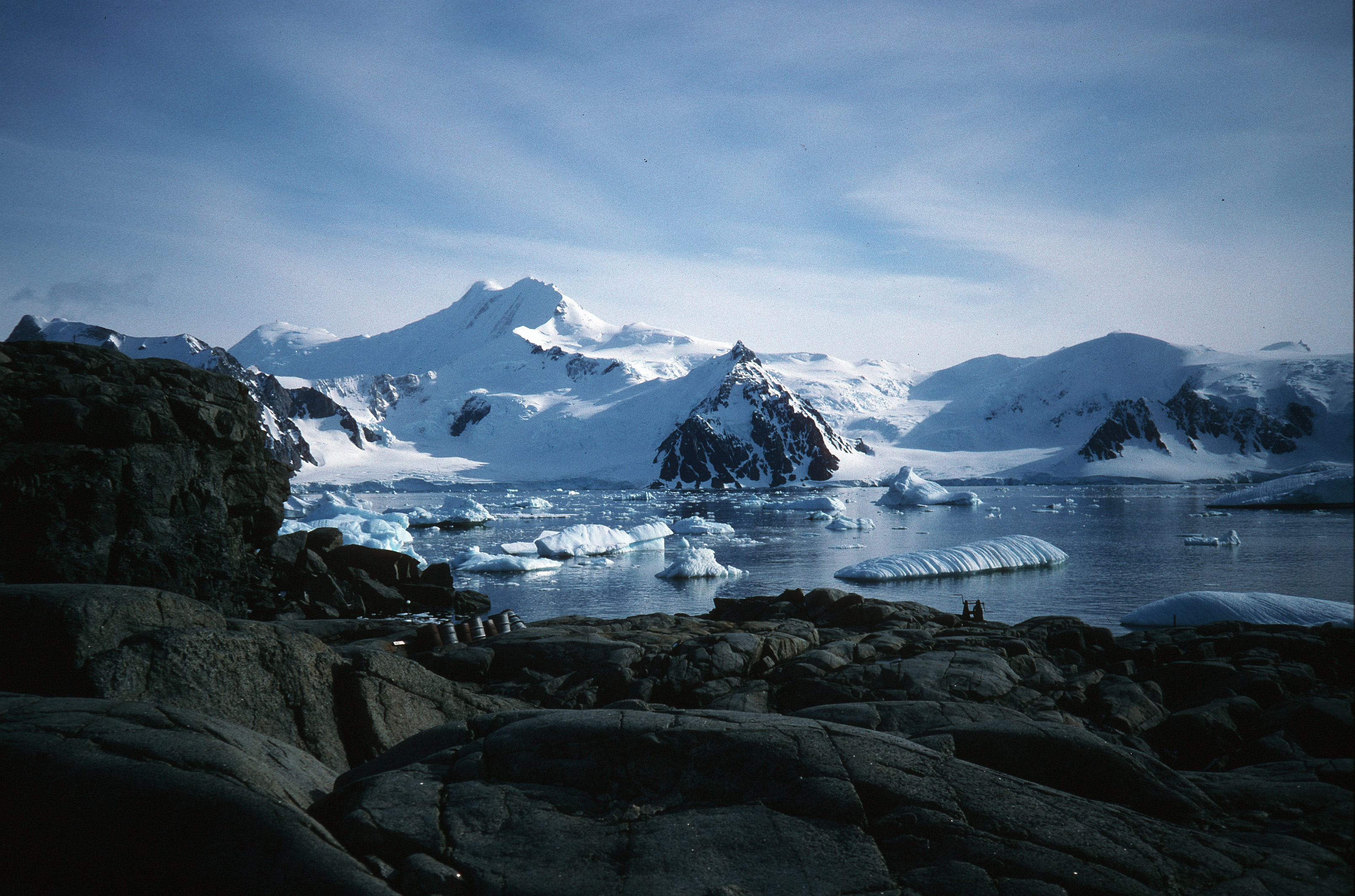 Pourquoi Pas Island is a mountainous island, 17 miles (27 km) long and from 5 to 11 miles (8 to 18 km) wide, lying between Bigourdan Fjord and Bourgeois Fjord off the west coast of Graham Land